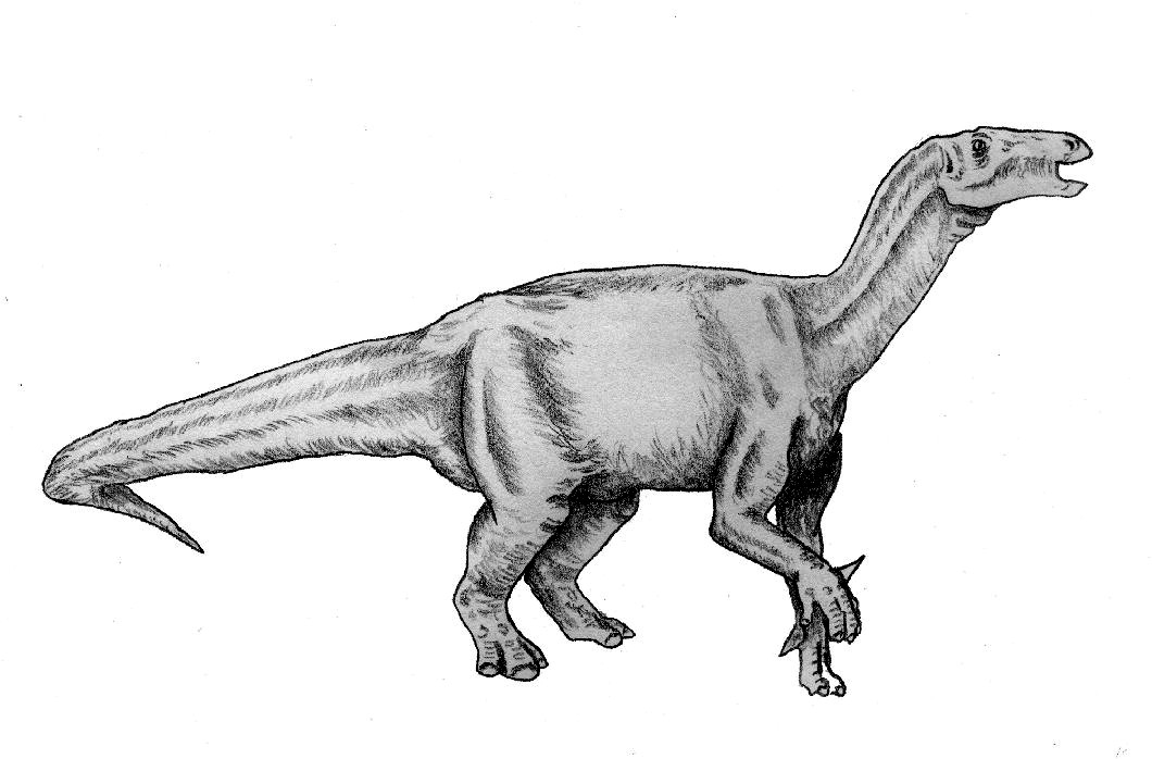 Lurdusaurus arenatus, a huge ornithpod from Niger.